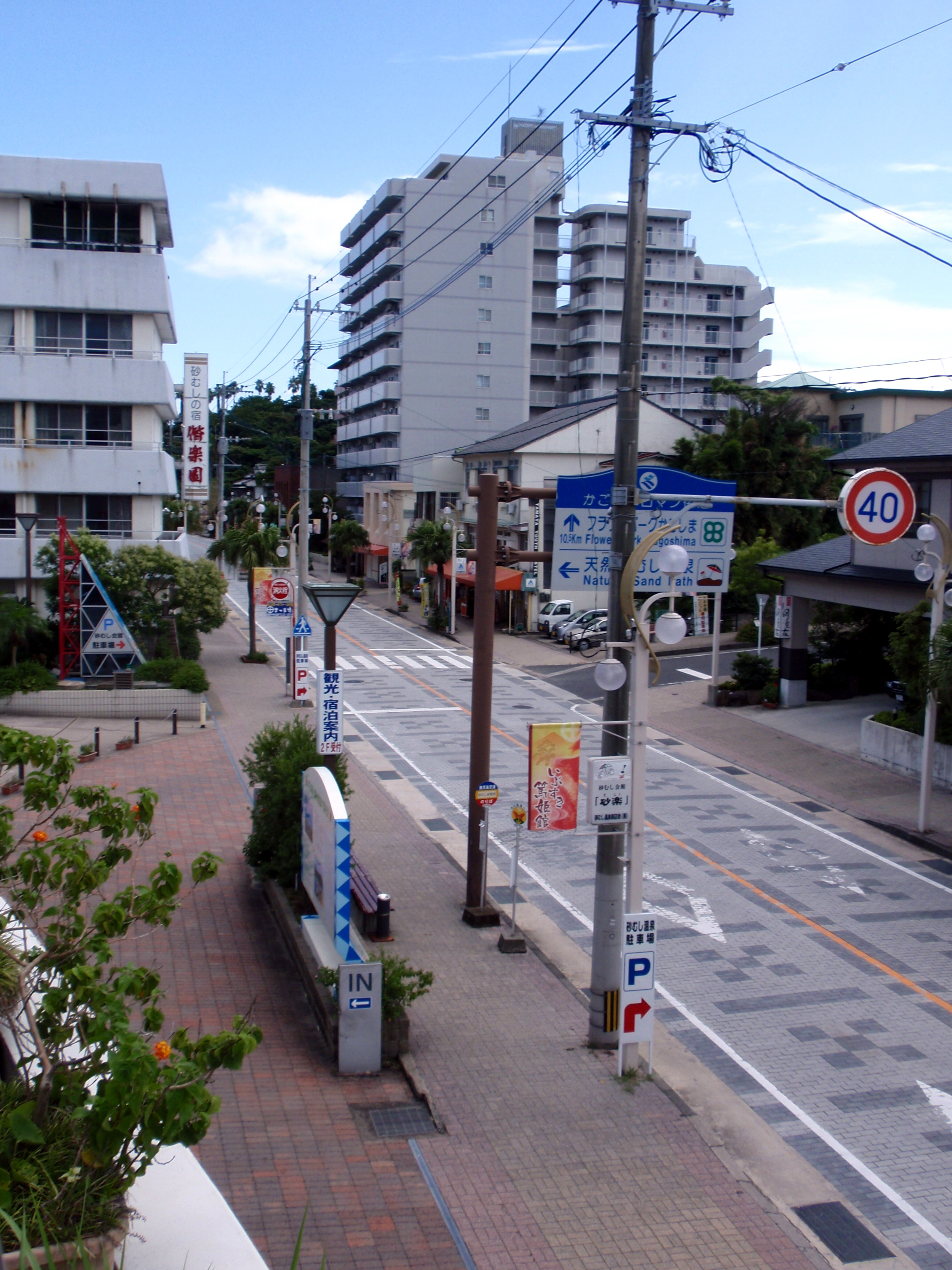 Town of Ibusuki, Japan